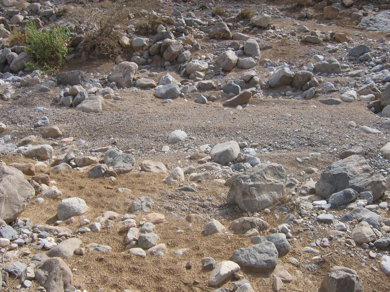 Alluvial sand and rock debris on the dry riverbed of Wadi al Khaynagh, Yemen